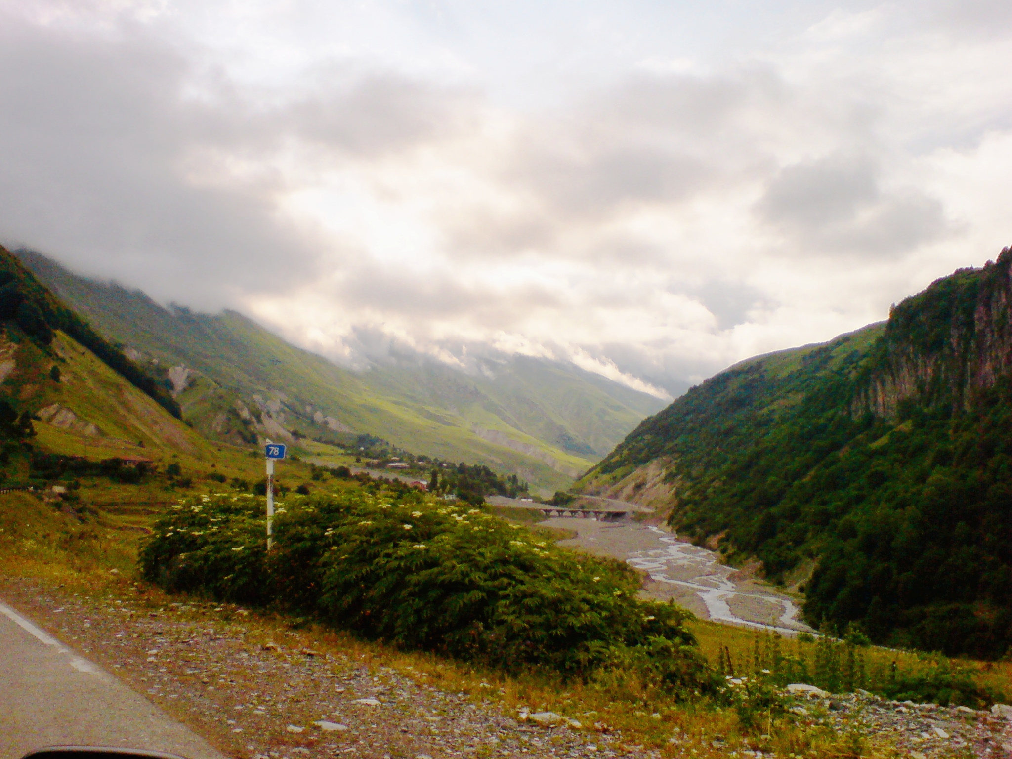 Heavy weather in Georgia